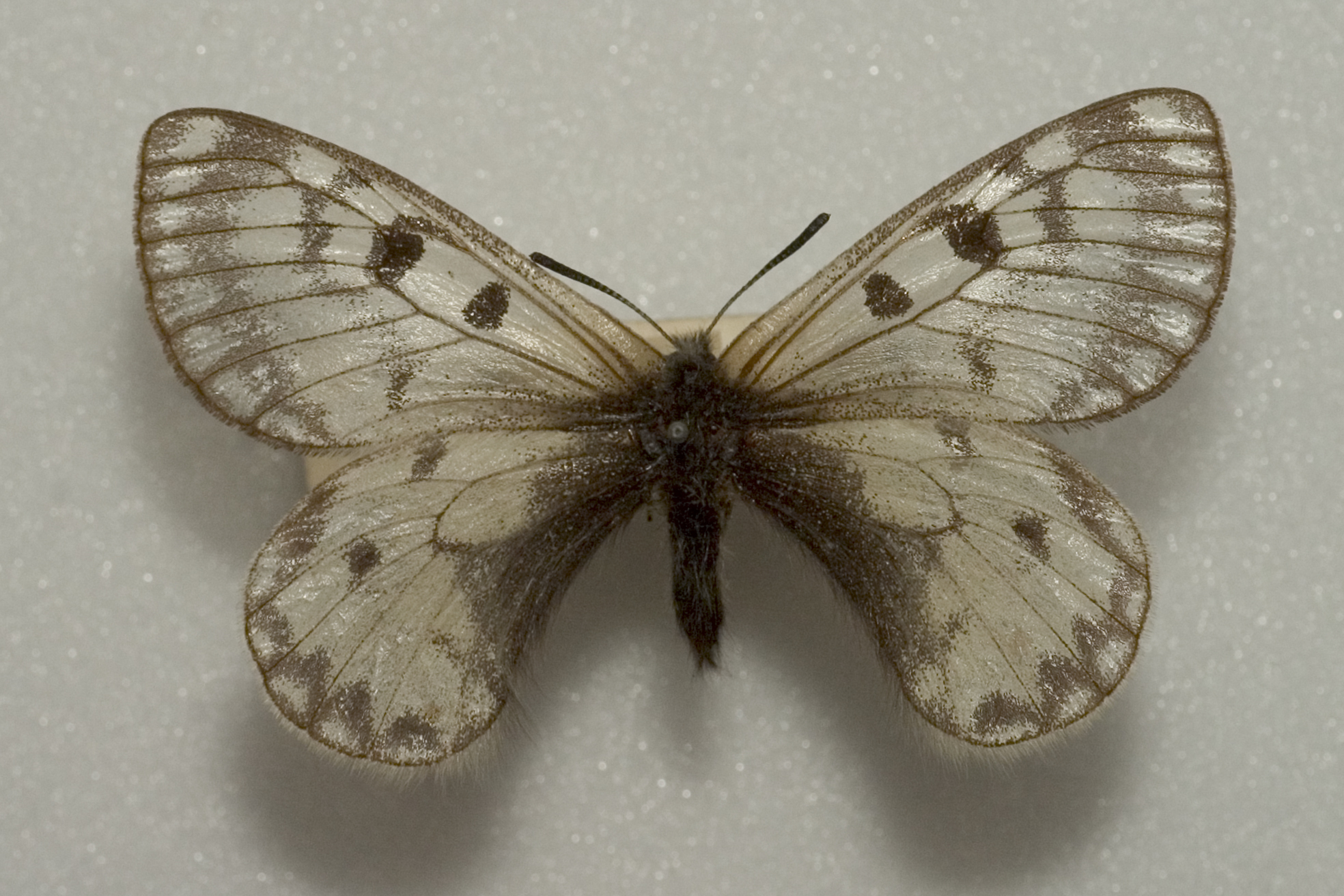 Parnassius boedromius boedromius Pungeler, 1901 Female Aksutal, Thainshan Female :946Par (G5):7 simo boedromius female Dresden 11.13.ii Own Photograph Photography by Brian McKenna